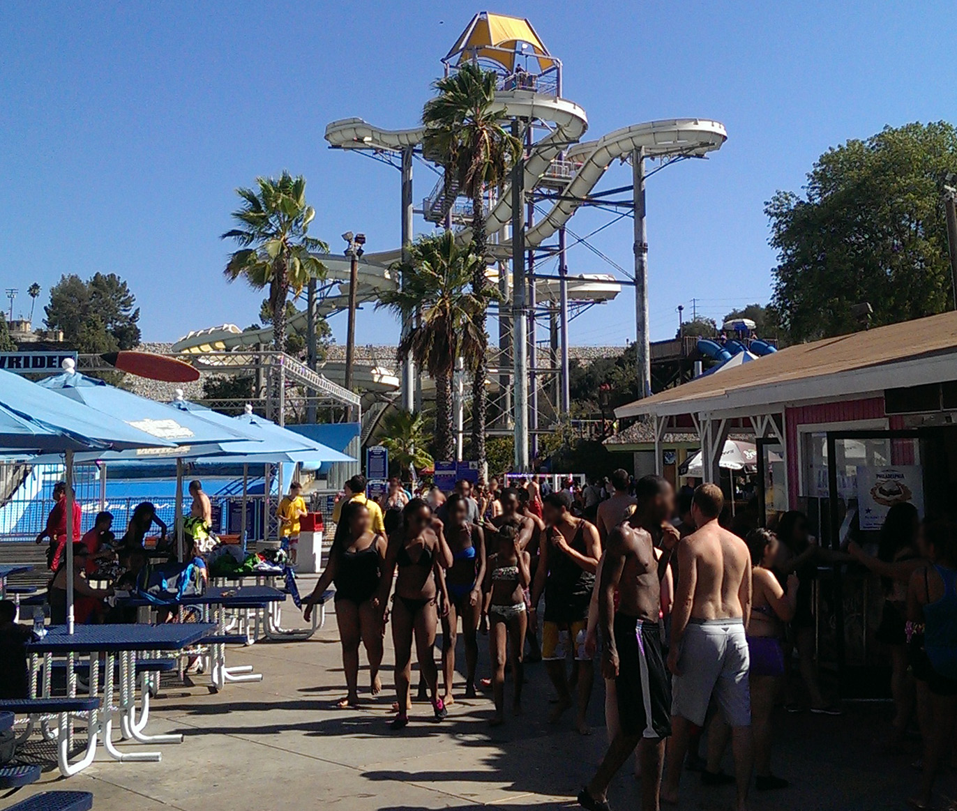 High Extreme at Raging Waters San Dimas, with dining area visible in foreground. Faces blurred to protect privacy.